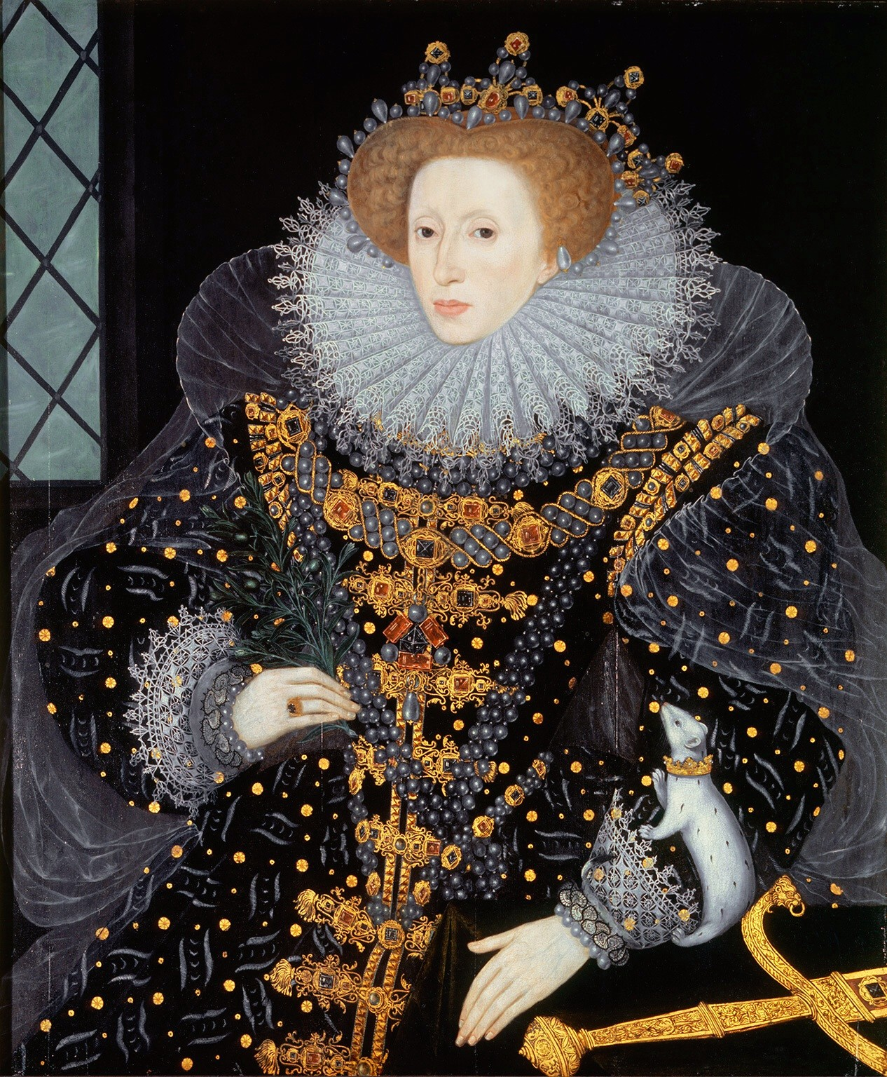 Painting of Elizabeth I of England, also known as the Ermine Portrait. Elizabeth is wearing a richly decorated black dress and The Three Brothers jewel.